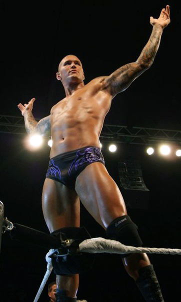 Randy Orton's pose